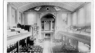 Postcard showing the interior of All Saint's Church in Southampton in 1910.